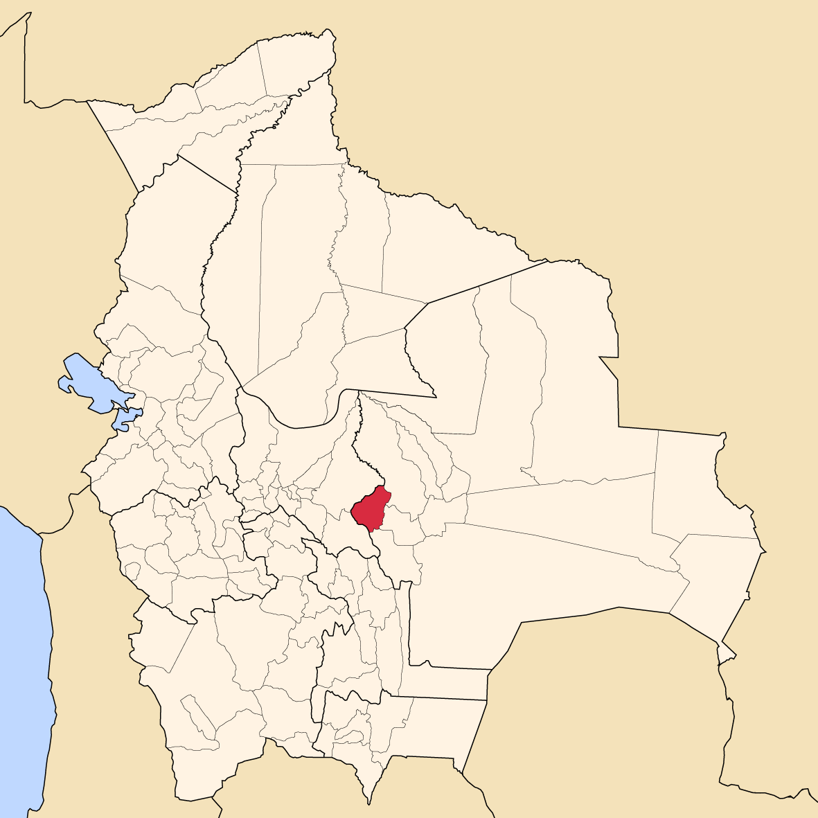 Map of Bolivia showing Manuel María Caballero province, Santa Cruz